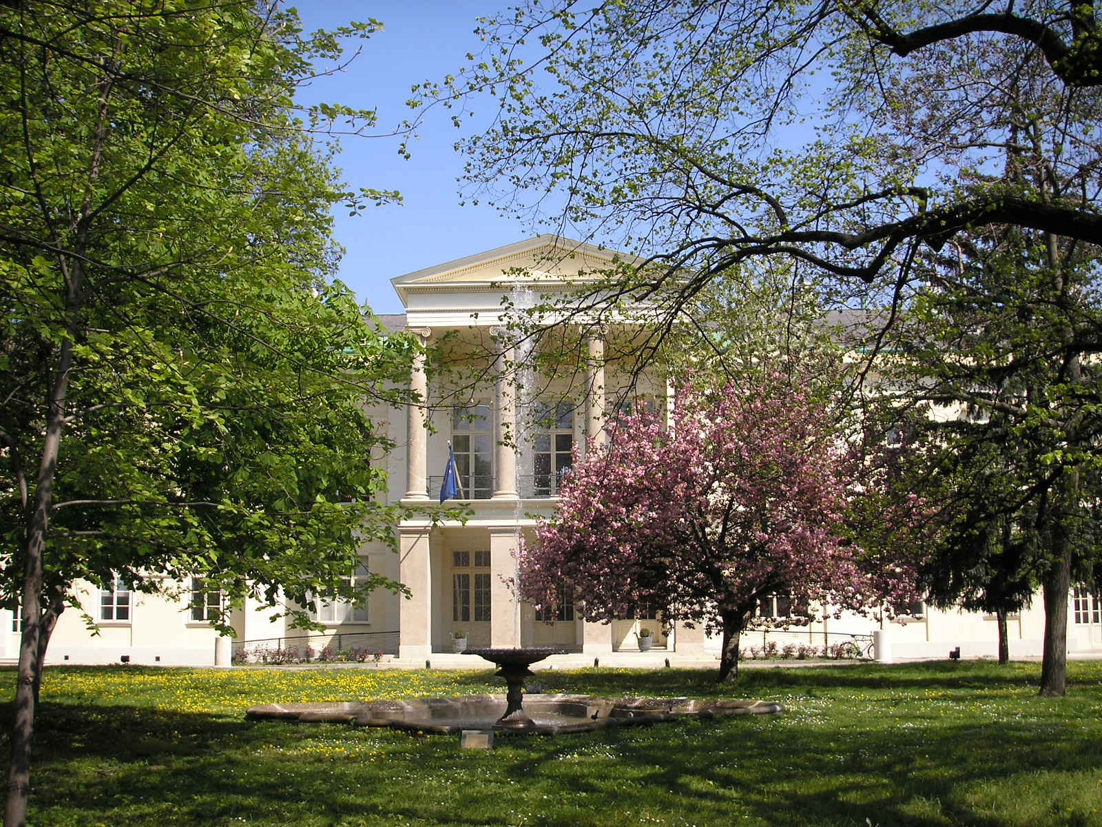 Image of the Palais Clam-Gallas in Vienna, located at Währinger Straße.